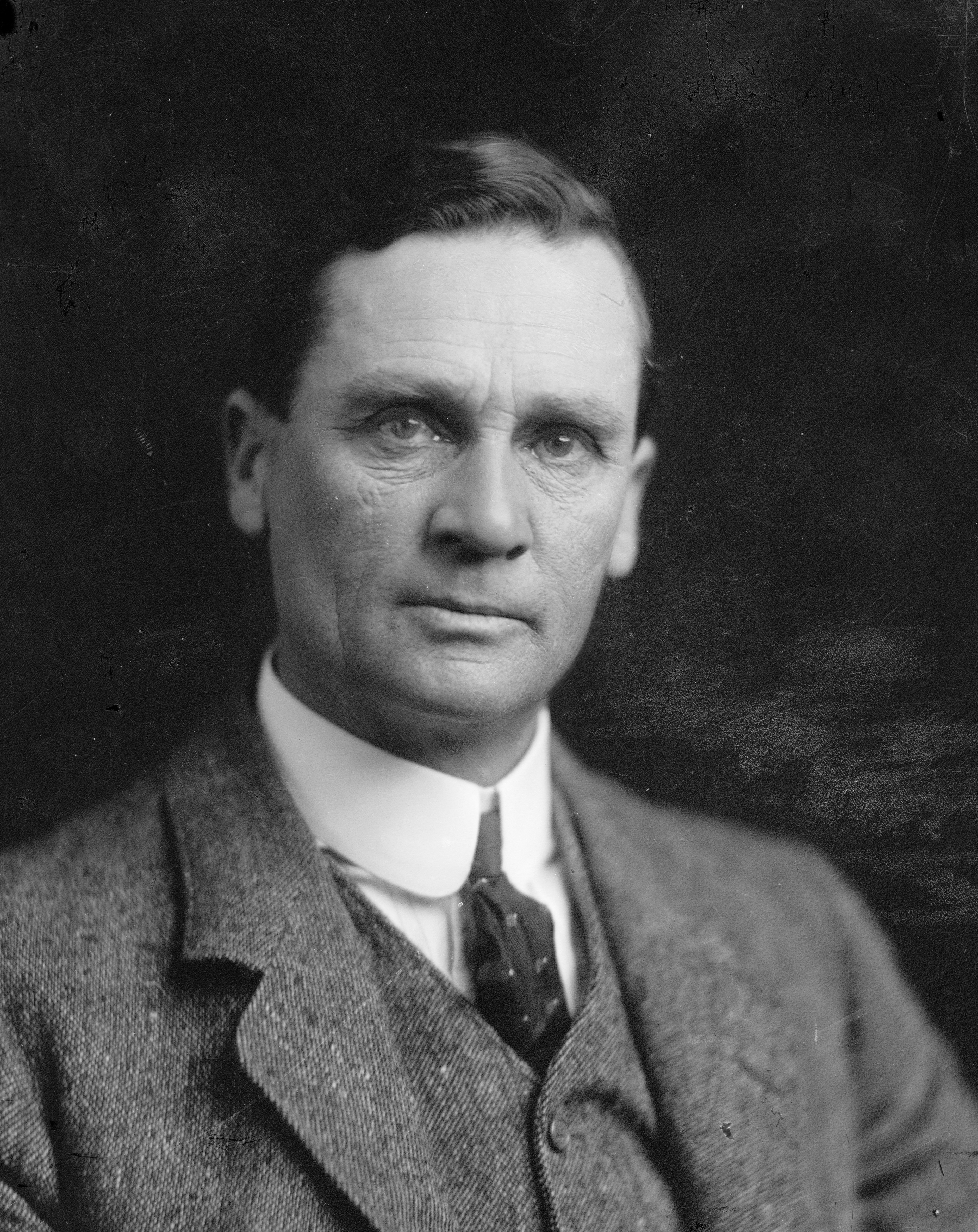 Head and shoulders portrait of Henry George Ell, photographed circa 2 October 1914 by S P Andrew Ltd of Wellington. Shows a clean shaven man looking towards the camera. He wears a shirt and tie, a waistcoat, and a suit jacket.